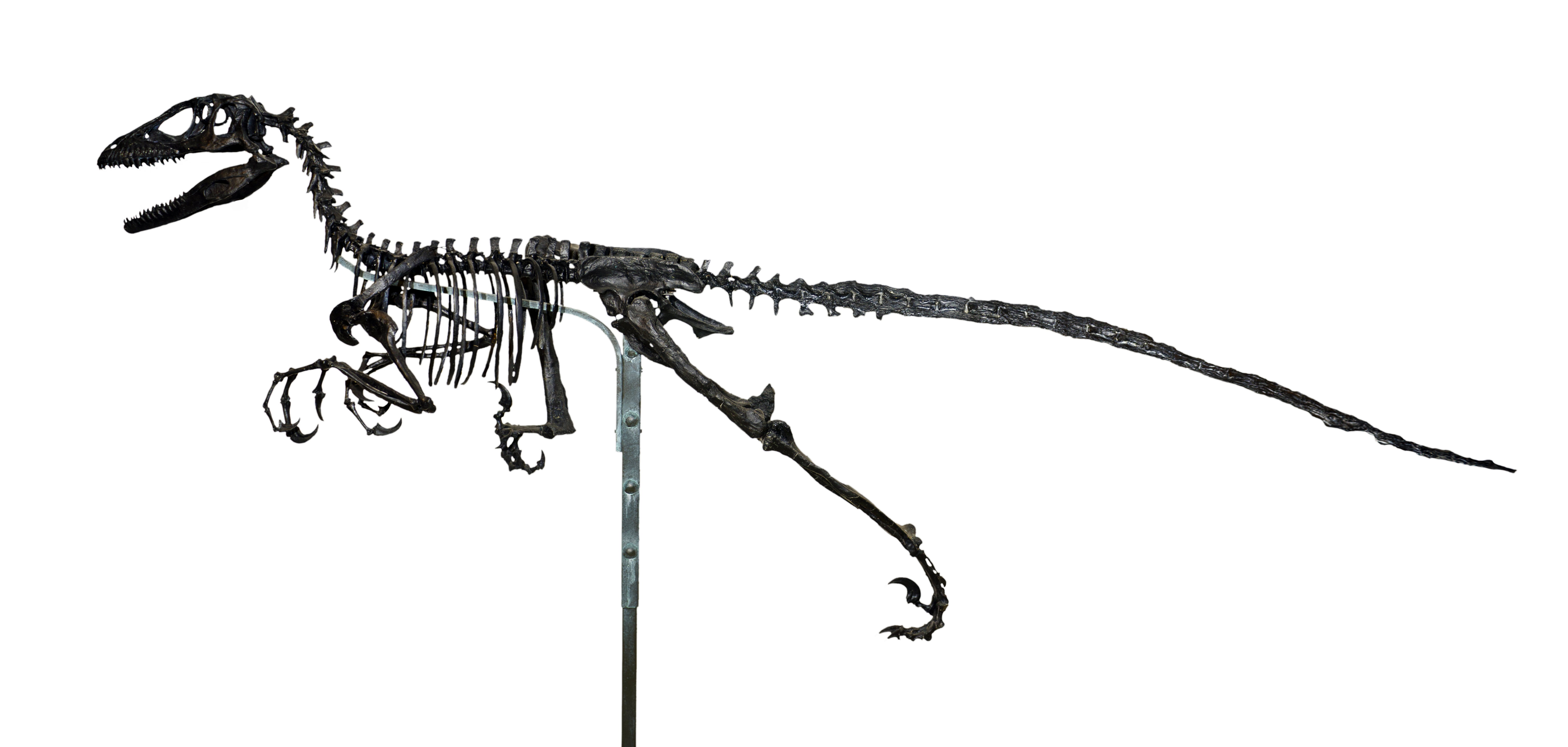 Deinonychus antirrhopus (Ostrom 1969) Restored by John Ostrom of Peabody Museum of Natural History. Private collection. Stage : Cretaceus. 115-108 million years Before the Current Era (from the mid-aptian to early albian stages) Locality : Cloverly formation, Montana, USA. Size : 2.8 m